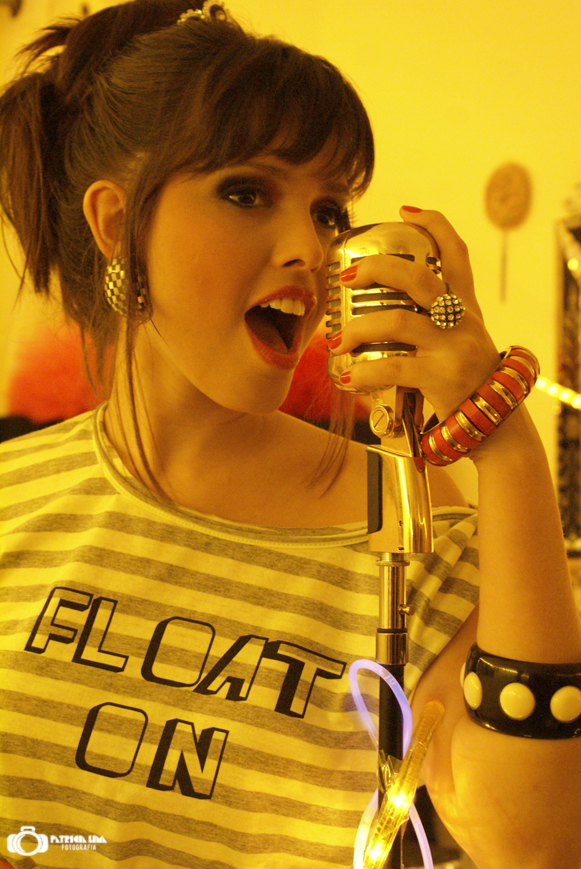 The Brazilian singer Jullie filming the music video for the Song "Hey".